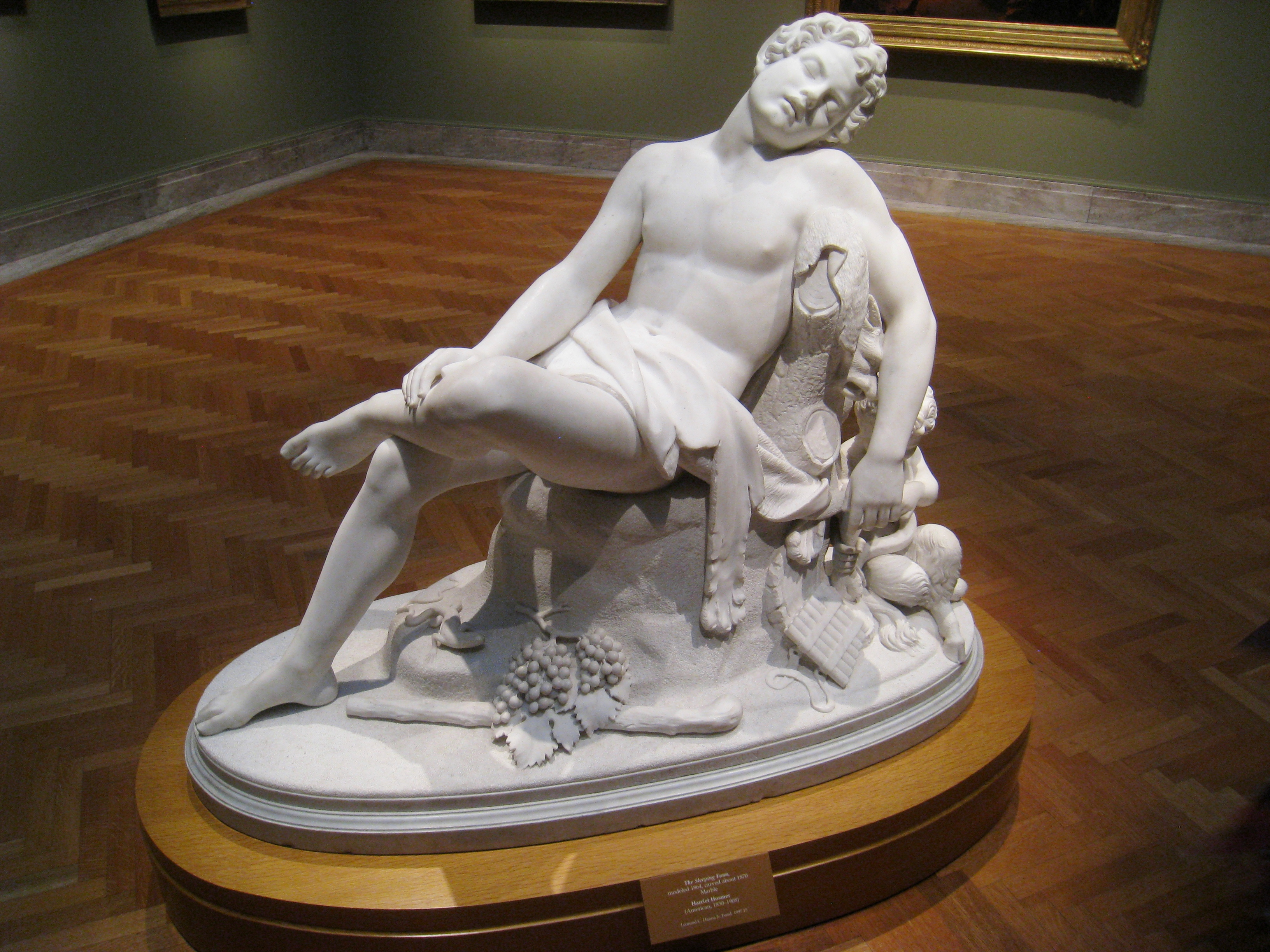 The Sleeping Faun, carved circa 1870 by Harriet Hosmer (1830-1908), in the Cleveland Museum of Art, Cleveland, Ohio, USA. There was no prohibition against photography in the museum. I took this photograph.